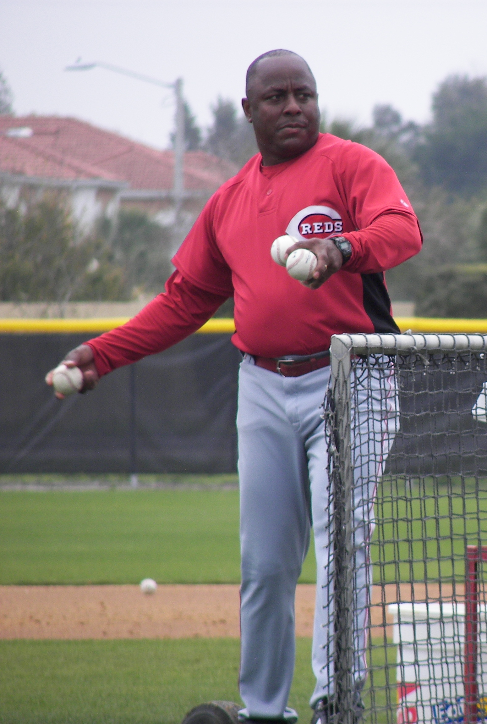 Cincinnati Reds coach and former player Billy Hatcher during a Spring Training workout outside Ed Smith Stadium in Sarasota, Florida.